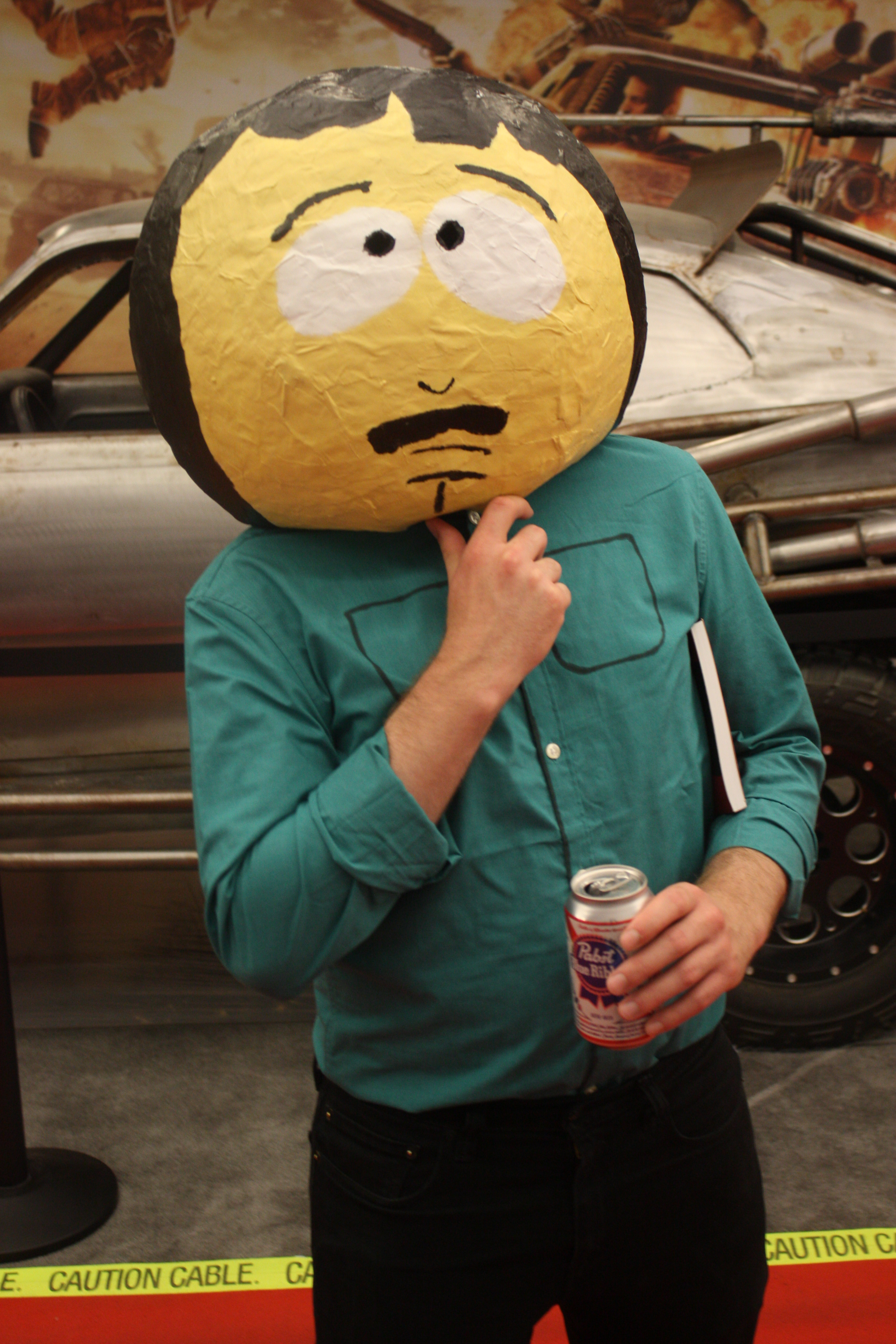 Cosplay on day three of Montreal Comiccon 2015.